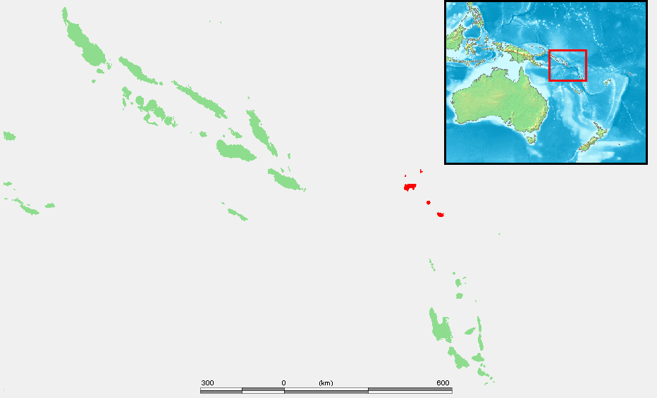 Island of Solomon Islands - Santa Cruz Islands.PNG